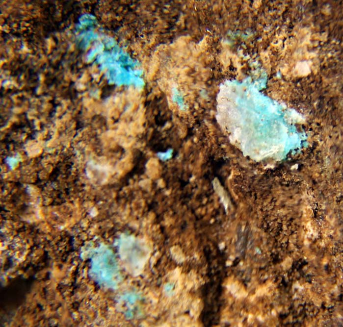 Sky blue crystals and crystal aggregates of the extremely rare antipinite (IMA 2014-027) from the only known locality worldwide (Pabellon de Pica, Chanabaya, Iquique Province, Tarapacá Region, Chile). Associated mineral is pale green salammoniac. Antipinite is a Copper-Sodium-Potassium Oxalate, which is a very rare combination in Nature since it is a mixture between an organic mineral and an inorganic mineral.